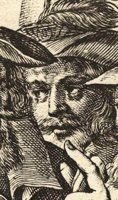 Cropped detail of John Wright, from a contemporary engraving of the Gunpowder Plotters. The Dutch artist probably never actually saw or met any of the conspirators, but it has become a popular representation nonetheless.